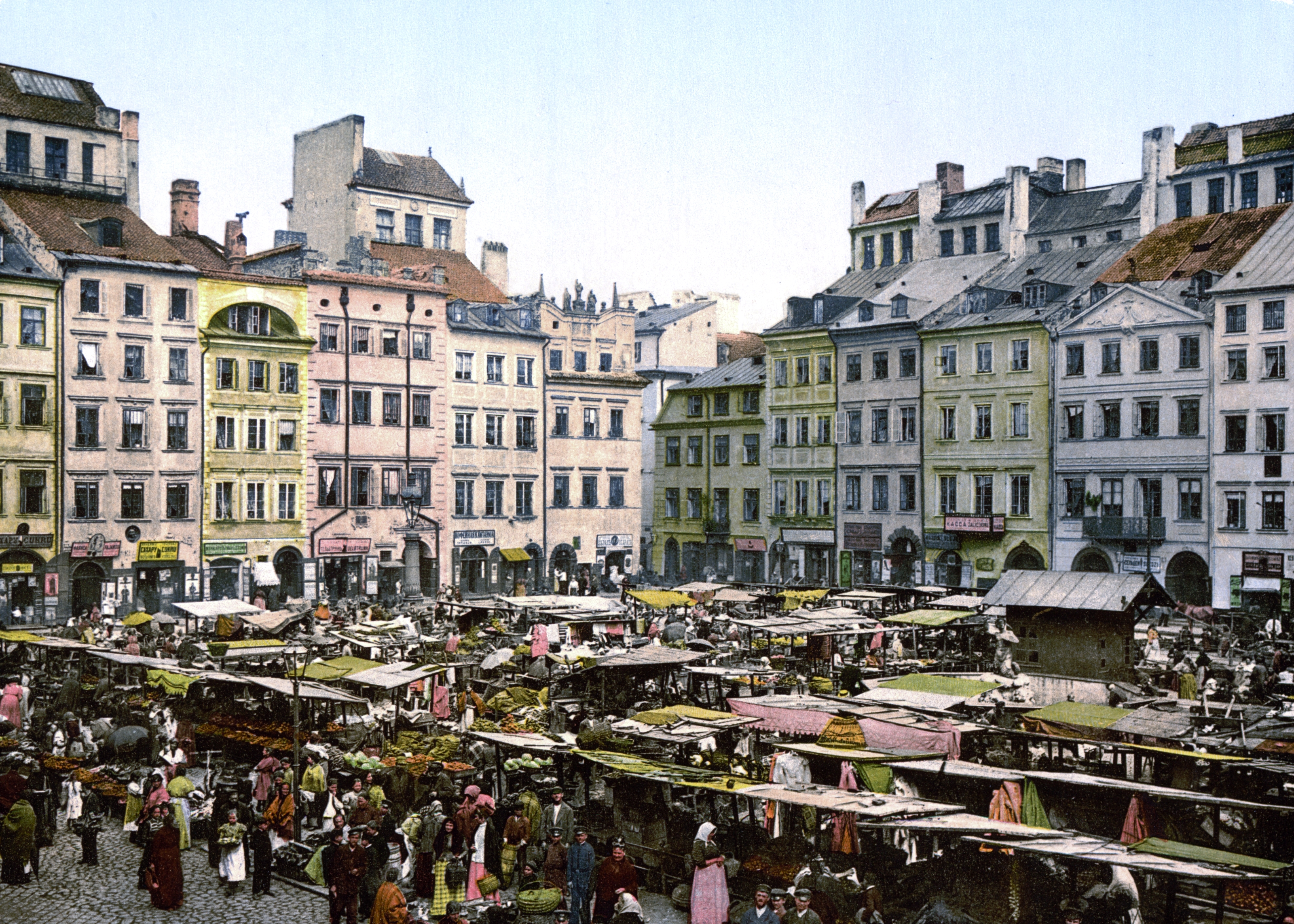 Market Square Warsaw about 1900. This photo was colorized.